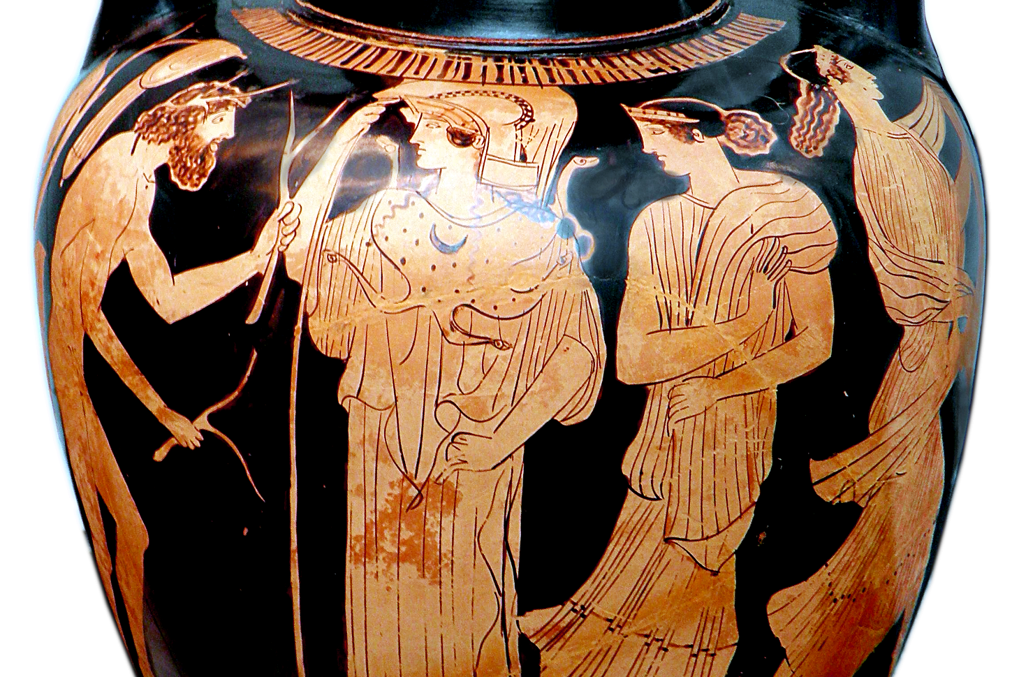 Attic Red-Figure Amphora ca. 440 BCE from Vulci depicting Athena facilitating the meeting between Odysseus and King Alkinoos' daughter Nausicaa after Odysseus washes up naked onto the island of Skheria. Odysseus has gathered a few branches in a pitiful attempt to hide his nakedness from the women. The original image was photographed by Carole Raddato on 31 May 2013 at Staatliche Antikensammlungen, Munich and uploaded to Flickr with license CCASA 2.0. This version of the image has been cropped to focus on the scene depicted, digitally edited to reduce the glare, and the background has been changed to solid white.